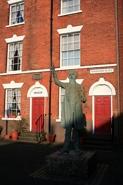 William Booth at his birthplace William Booth was born in No. 12 Notintone Place (the first door from the left here) It is now a museum and stands at the centre of a Salvation Army complex